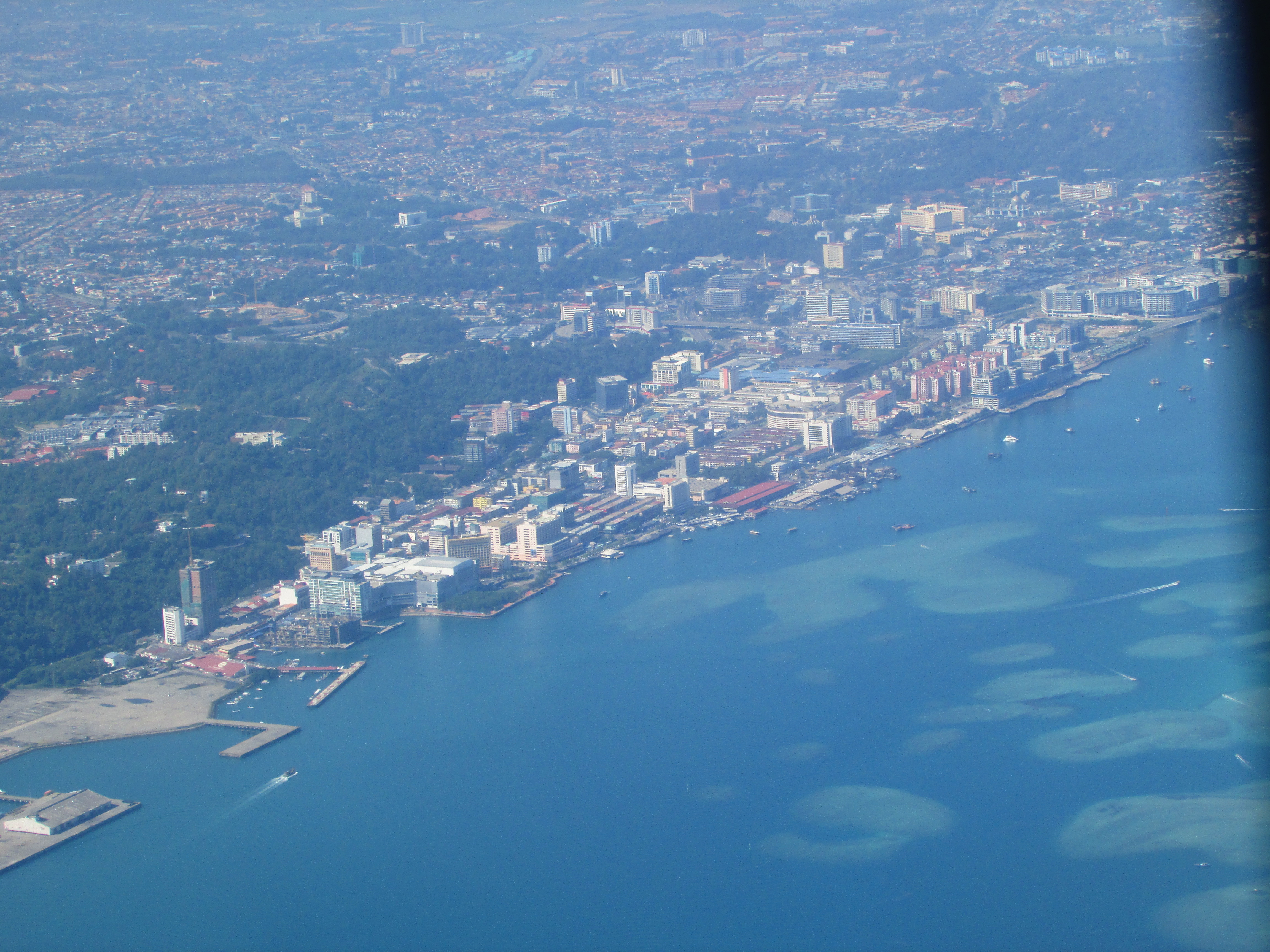 A quick glance at the growing skyline of downtown Kota Kinabalu as the plane I was in turned over Gaya Island. The July sun helped a lot in this shot - as it was shining slightly more from the north east. Mercure KK city centre and Jesselton Residences can be seen near the centre of the shot, while the new Imago Mall is seen near top right. The suburbs of Penampang is on the top left.